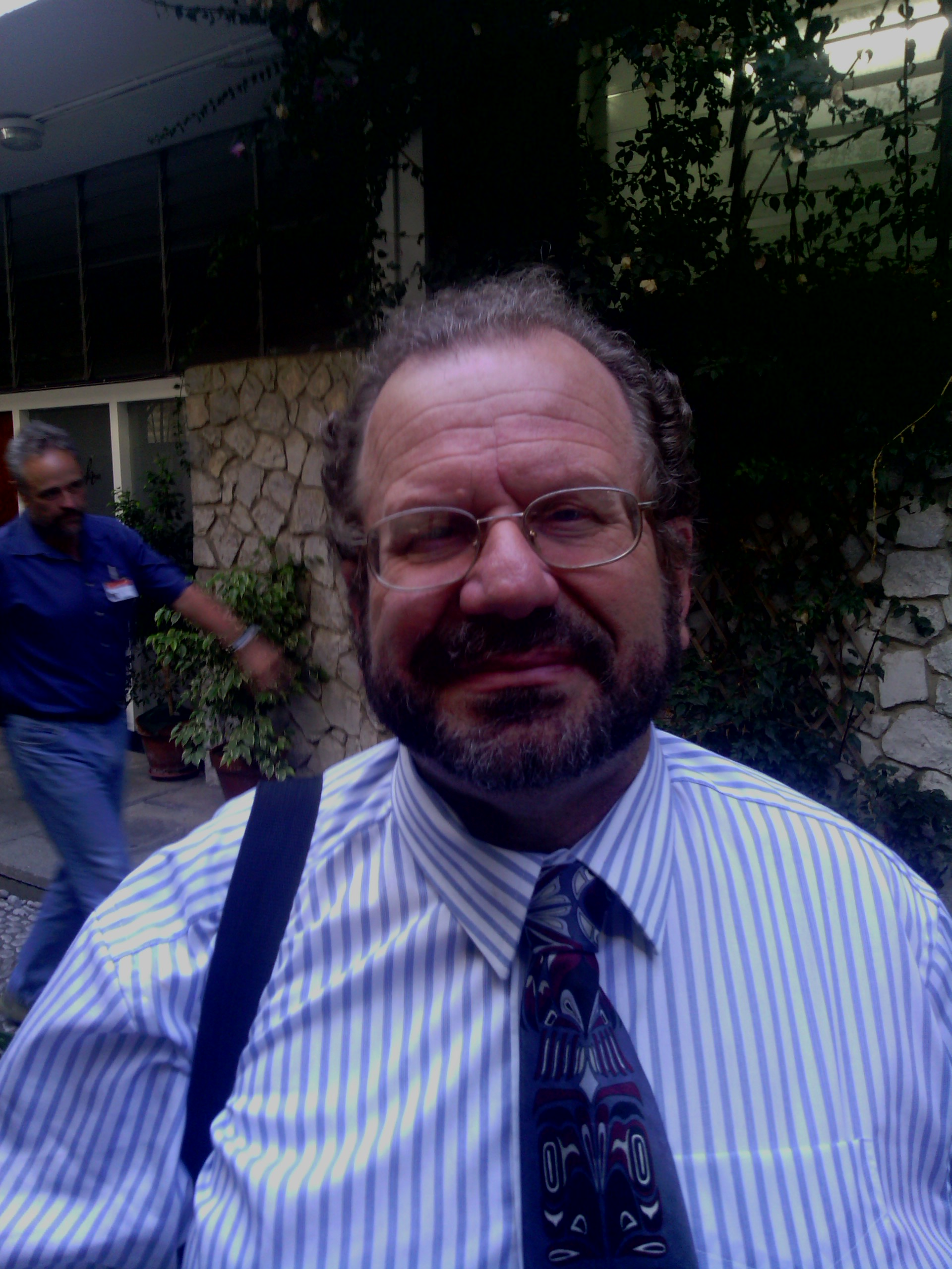 dr john cortes = minister for health in gibraltar